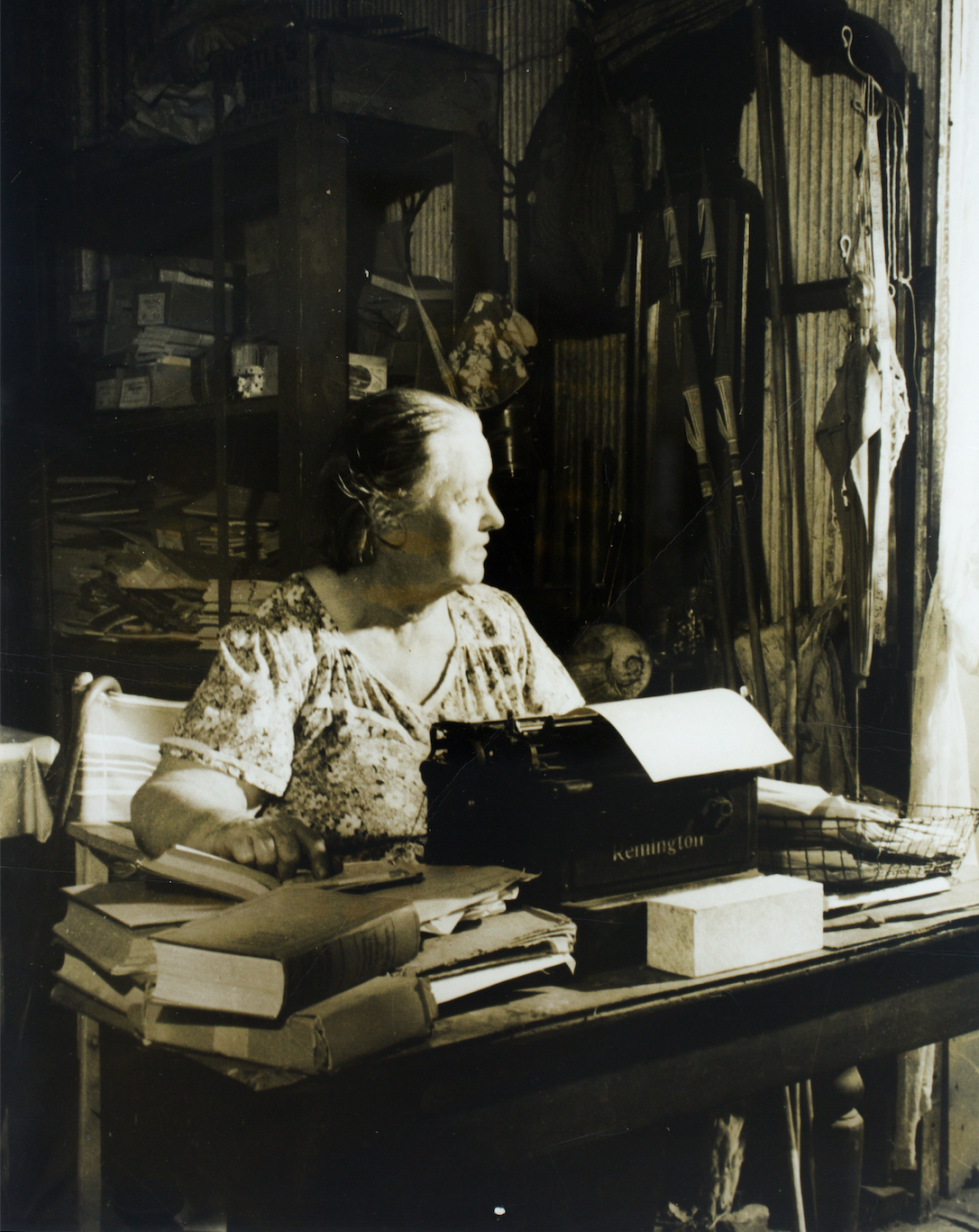 Jessie Litchfield, writer, ran the Roberta Library in Darwin sits at the desk with a Remington typewriter looking out the window. Date circa 1950s. People of the Northern Territory 1950-1968 - PH0501/0382